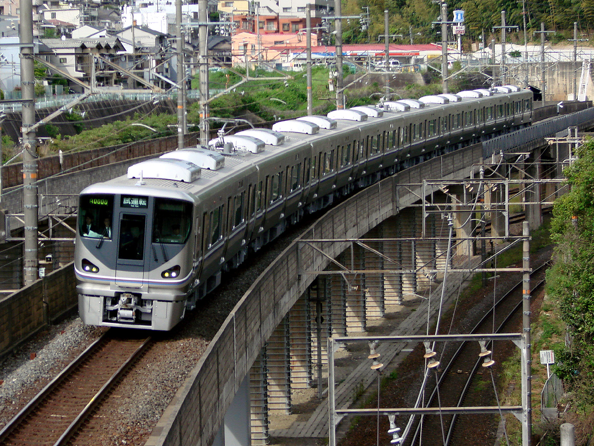 JR West series 225 EMU on a test run shortly after delivery